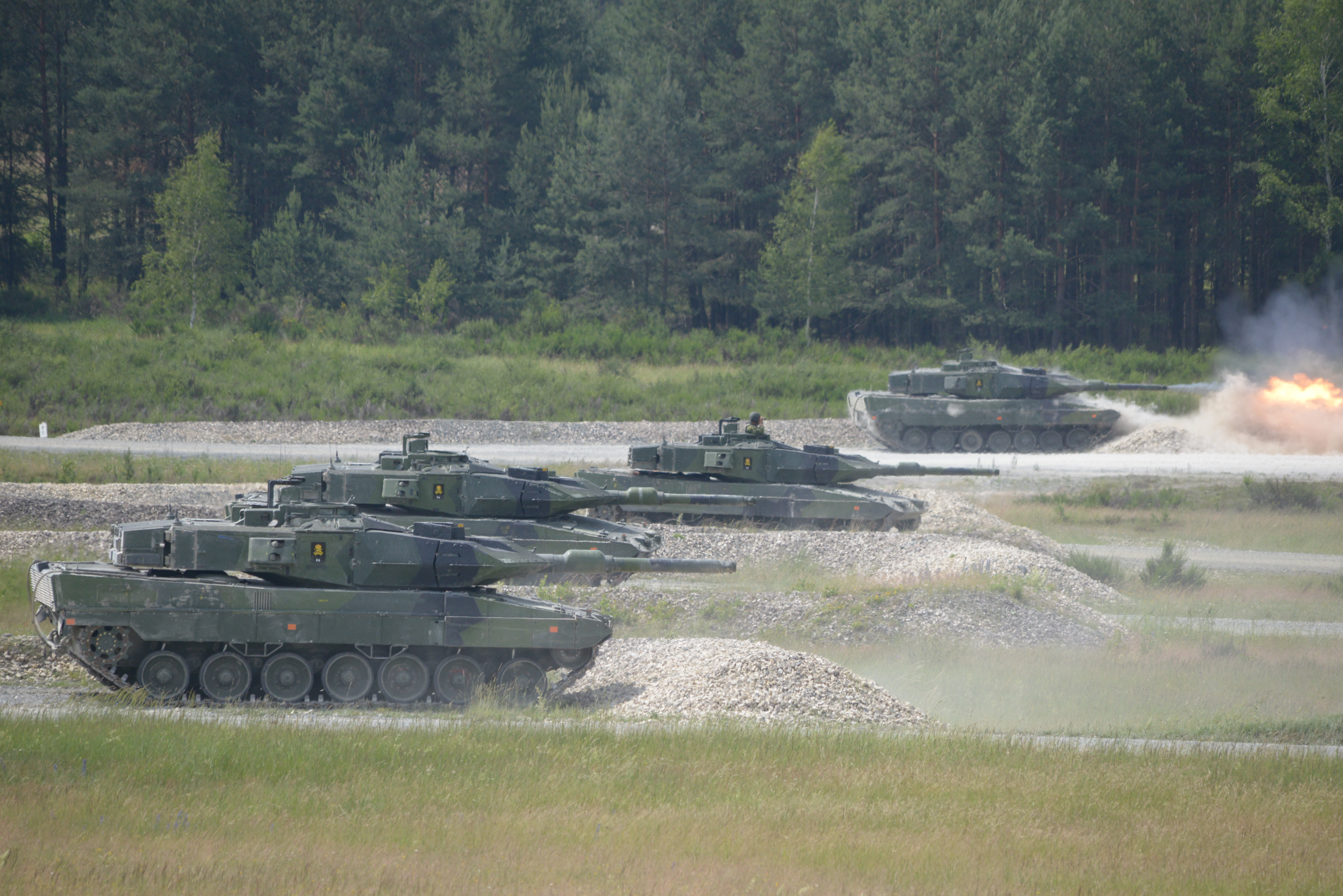 U.S. Army Europe and the German Army co-host the third Strong Europe Tank Challenge at Grafenwoehr Training Area, June 8, 2018. The Strong Europe Tank Challenge is an annual training event designed to give participating nations a dynamic, productive and fun environment in which to foster military partnerships, form Soldier-level relationships, and share tactics, techniques and procedures. (U.S. Army photo by Christoph Koppers)